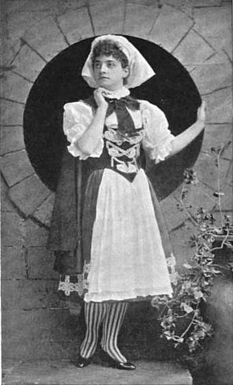 Actress Marion Manolo